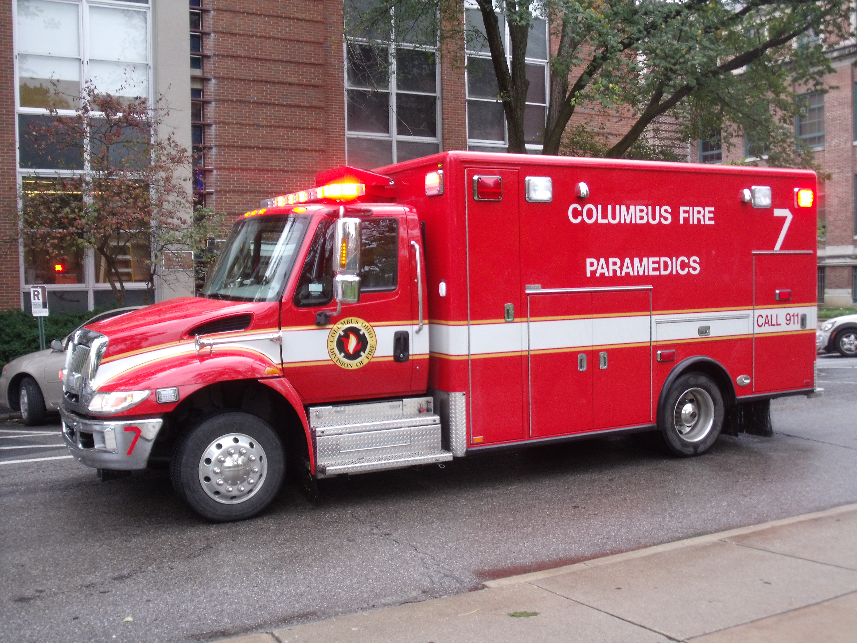 Columbus Fire Department Medic 7